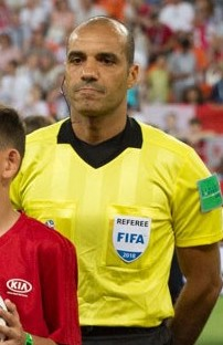 2018 FIFA World Cup Match 46, Panama v Tunisia